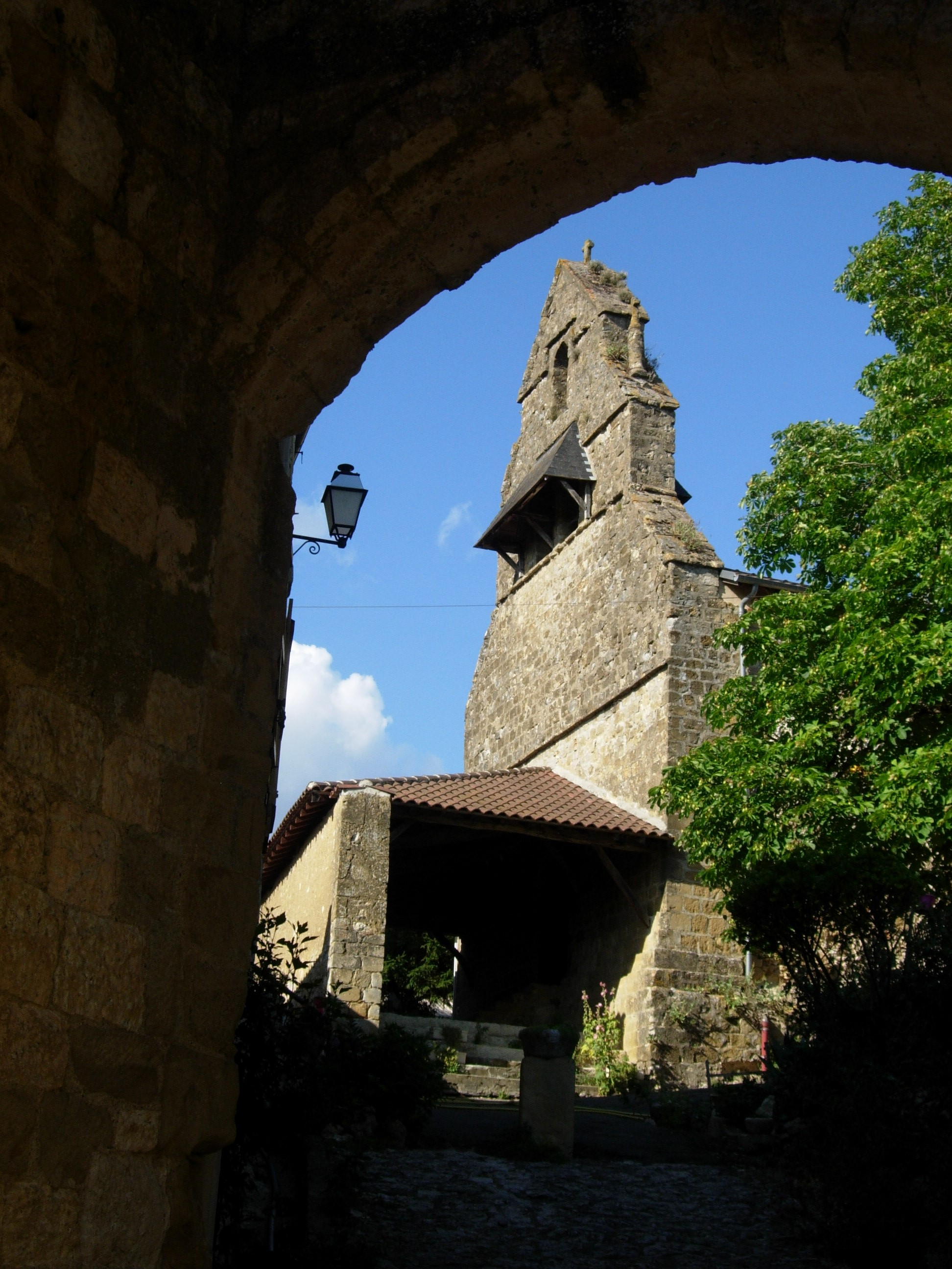 The Church of Saint-Arailles, Gers, France